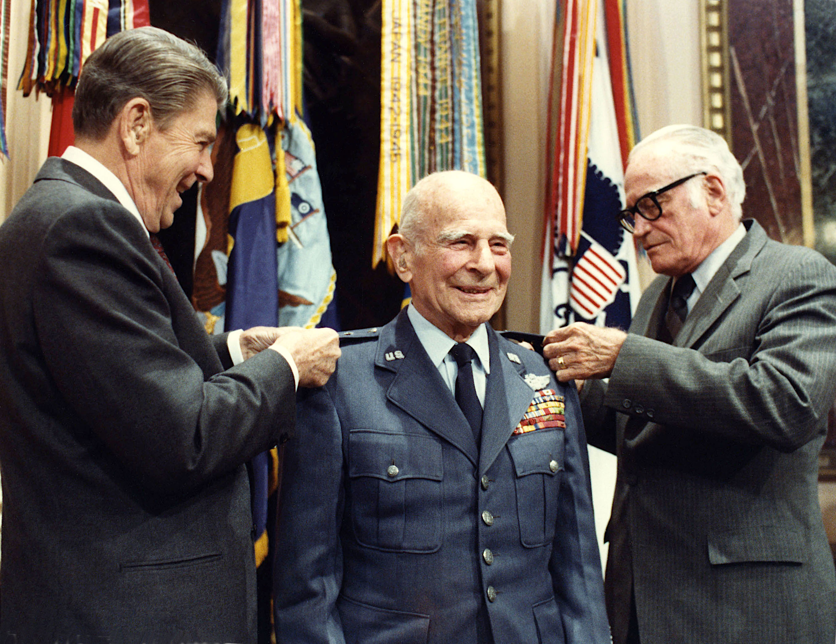 President Ronald Reagan and Senator Barry Goldwater award General Jimmy Doolittle with a fourth star 26 years after his retirement from the U.S. Air Force. General Doolittle was advanced to four-star rank by Senate confirmation, making him the first person in Air Force Reserve history to wear four stars.